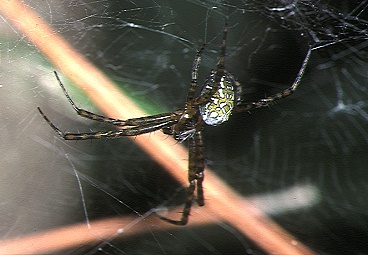 male Cyrtophora moluccensis from Okinawa.